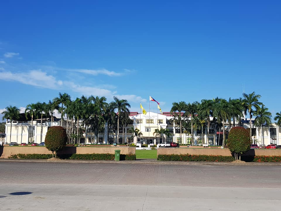 Provincial Capitol of Agusan del Sur was located at Patin-ay, Prosperidad, Agusan del Sur. Owned by PIA - Agusan del Sur and it is public domain.